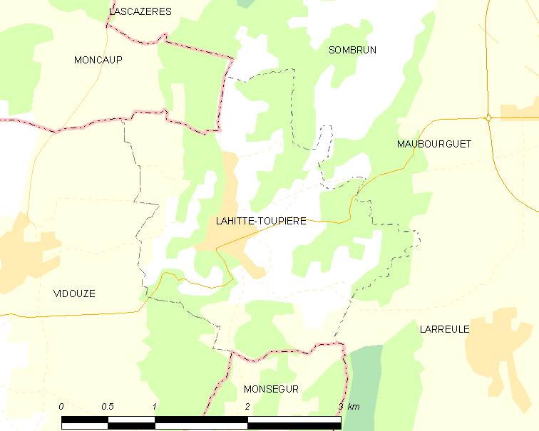 Map of French municipality